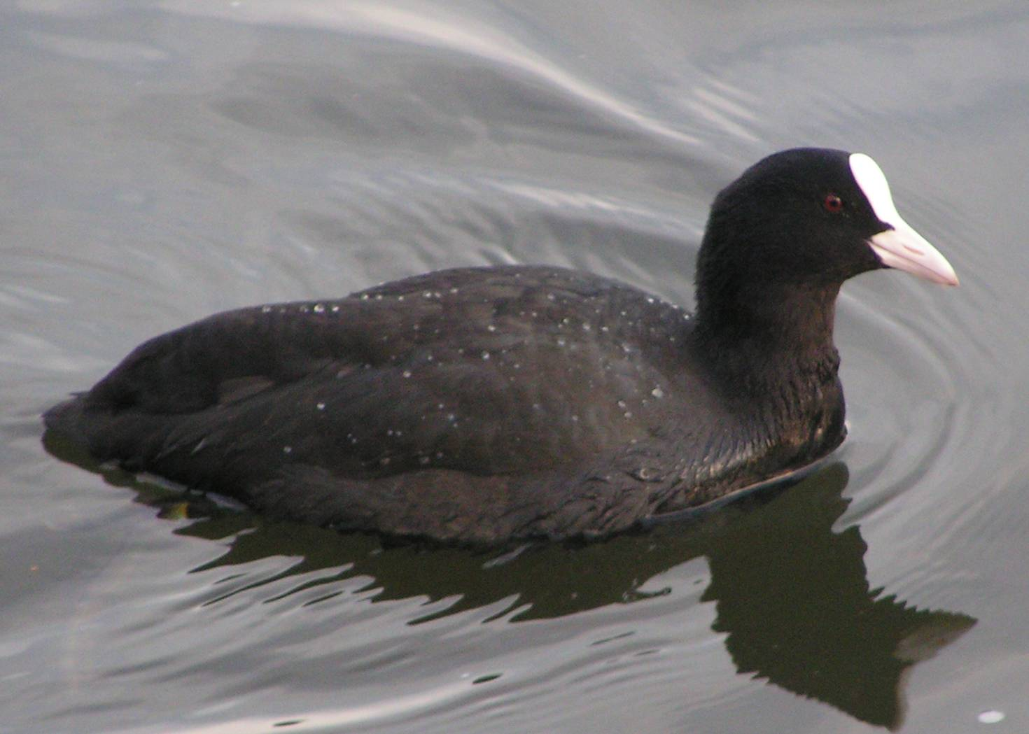 Eurasian Coot on the Thames